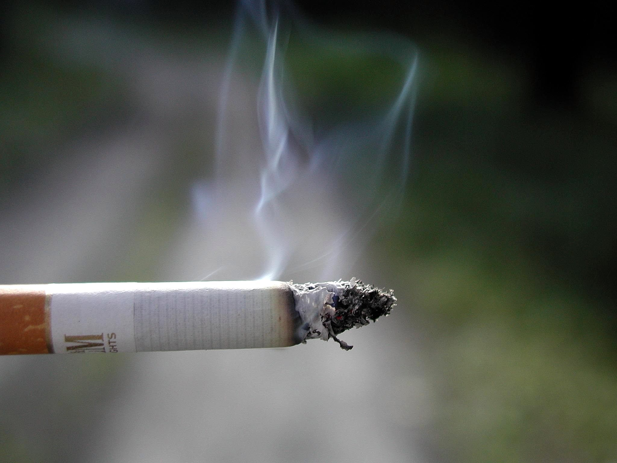 Image title: Cigarette smoking Image from Public domain images website